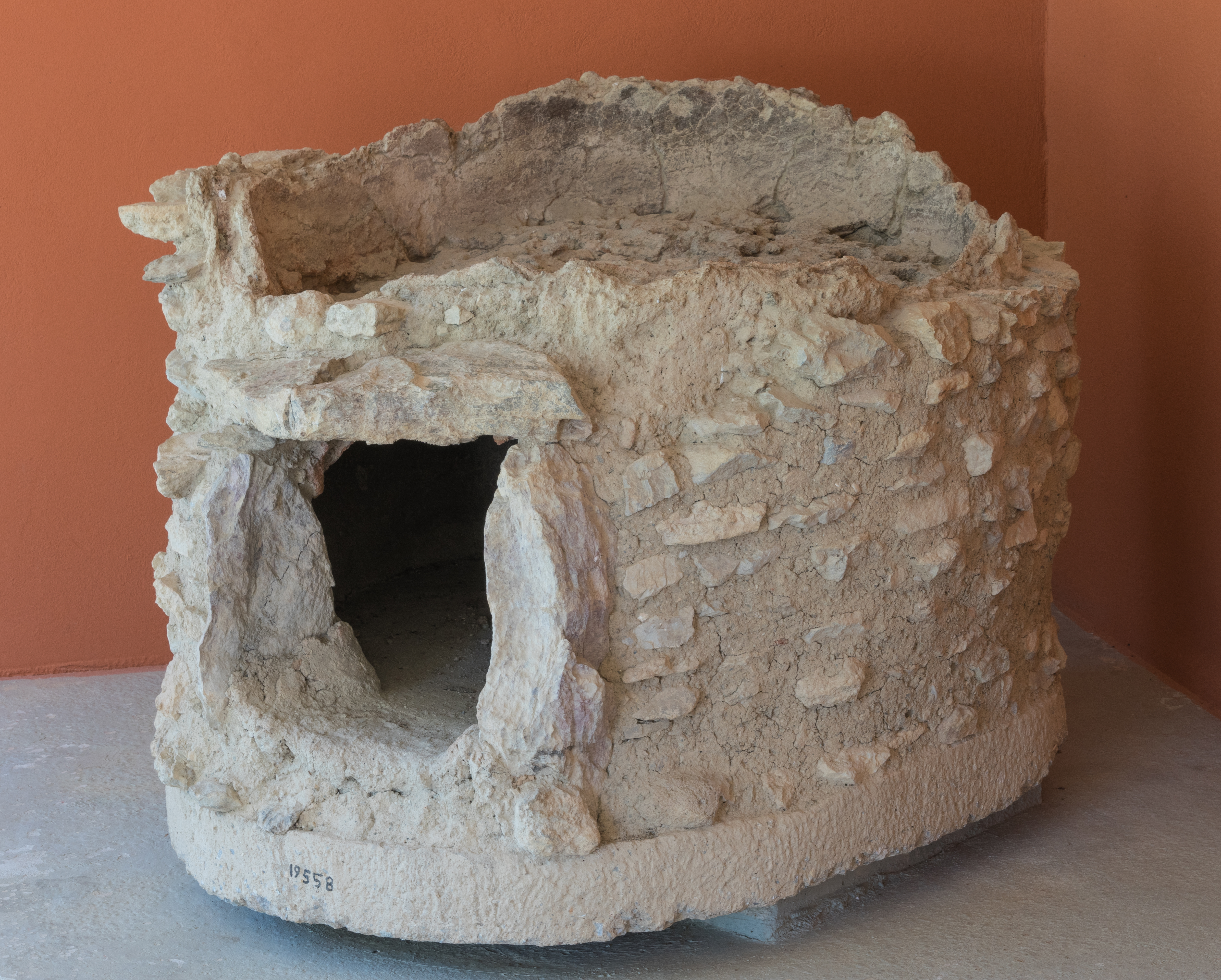 Ancient greek pottery kiln, Archaeological museum of Eretria, Euboea, Greece. Archaeological Museum of Eretria Native nameΑρχαιολογικό Μουσείο ΕρέτριαςLocationEretria, GreeceCoordinates38° 23′ 45.96″ N, 23° 47′ 22.42″ E Established1960 Web page control : Q42114772 VIAF: 173024206 ULAN: 500300138 institution QS:P195,Q42114772 inv.19558